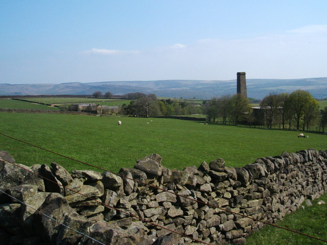 Chimney of Ladywash Mine